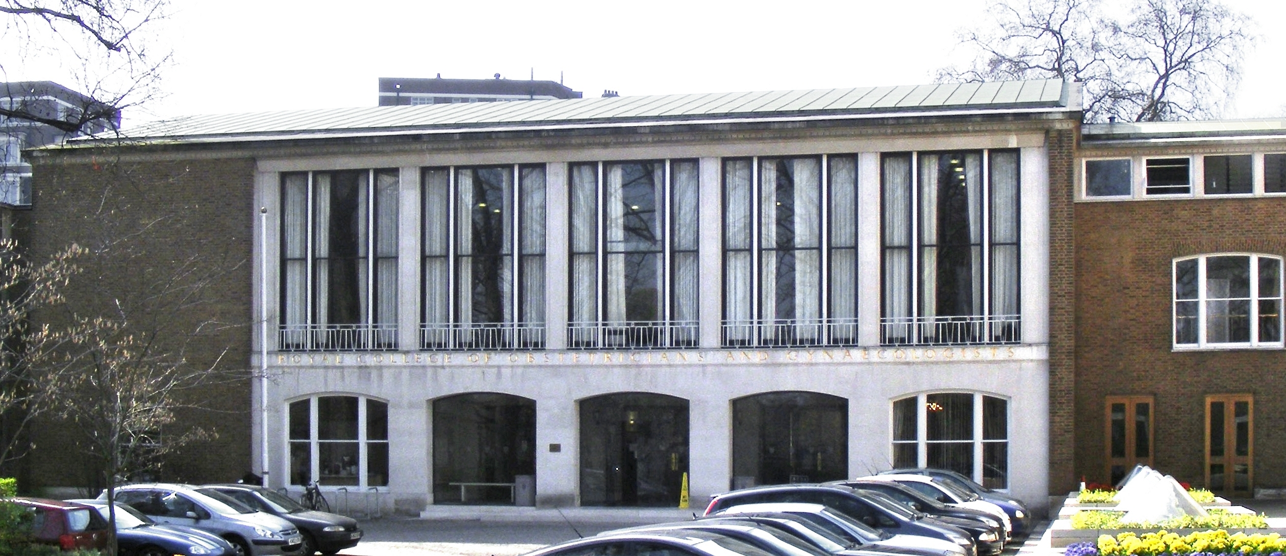 The headquarters of the Royal College of Obstetricians and Gynaecologists at 27 Sussex Place, London NW1 4RG